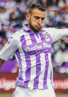 Real Valladolid - Valencia C. F., 38th fixture of the 2018-19 La Liga, May 18, 2019.